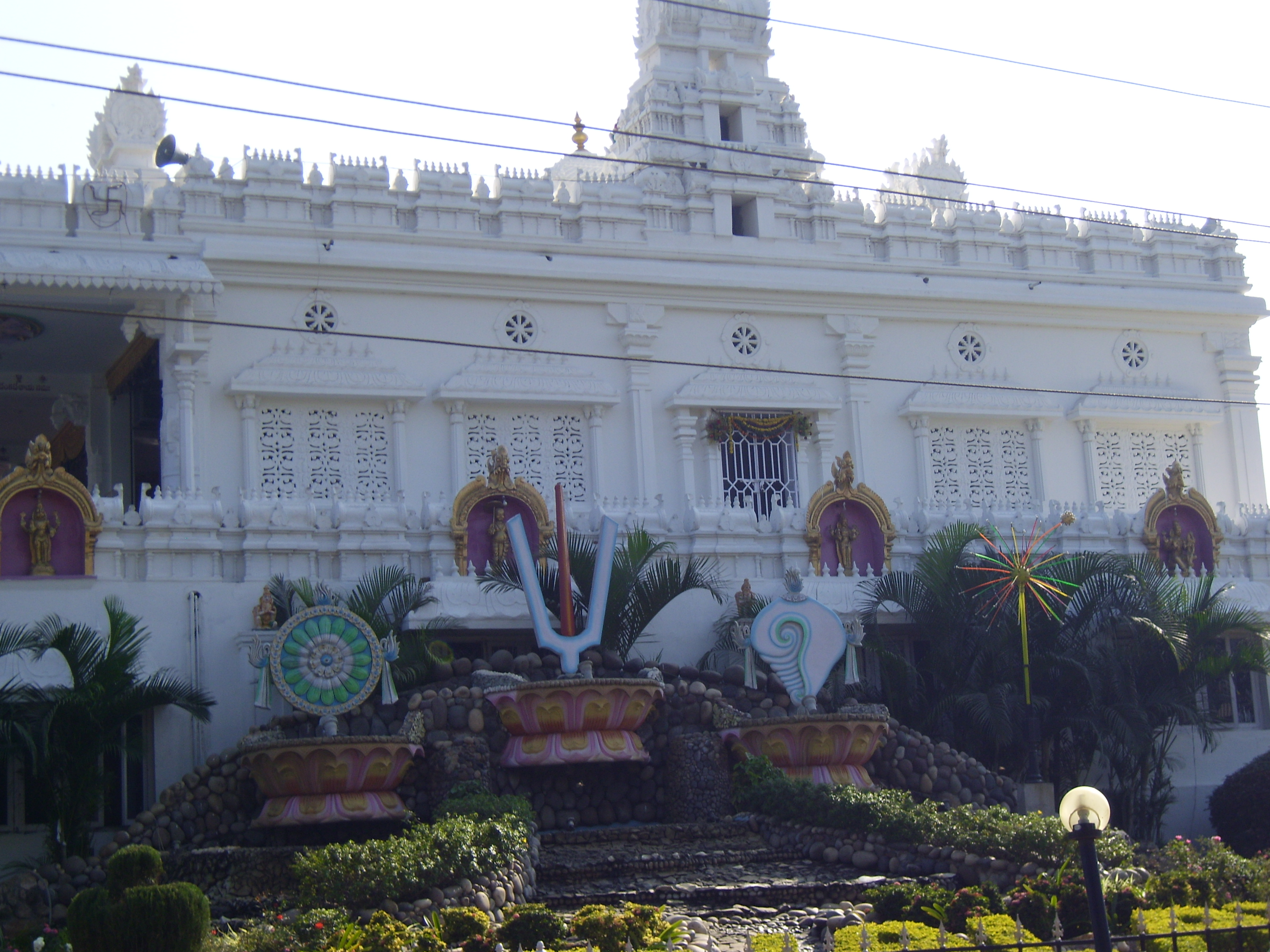 Ratnalayam Venkateswara Temple